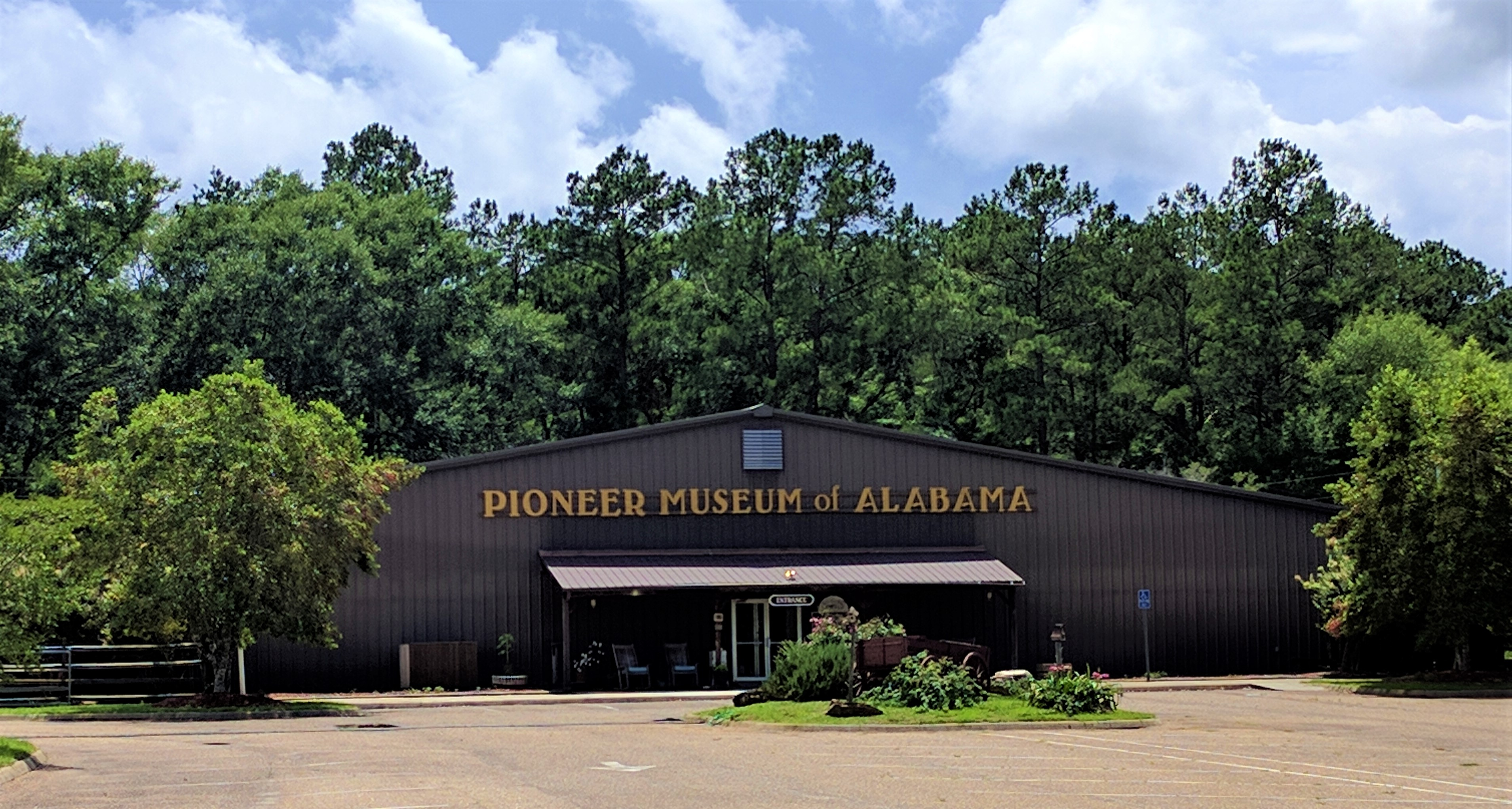 Front of Pioneer Museum of Alabama.